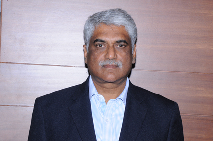 Chairman of Presidency Group of Institutions, and Chancellor of Presidency University, Bangalore.